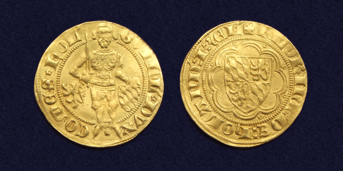 Holland, Gold florin of William of Bavaria as Count William V of Holland (1346-1389).